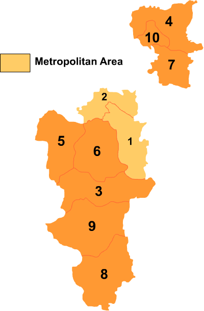 Map of Langfang in Hebei province:1. Anci District2. Guangyang District3. Bazhou4. Sanhe5. Gu'an County6. Yongqing County7. Xianghe County8. Daicheng County9. Wen'an County10. Dachang Hui Autonomous County